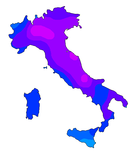 Map of daily sunshine hours in Italy in February